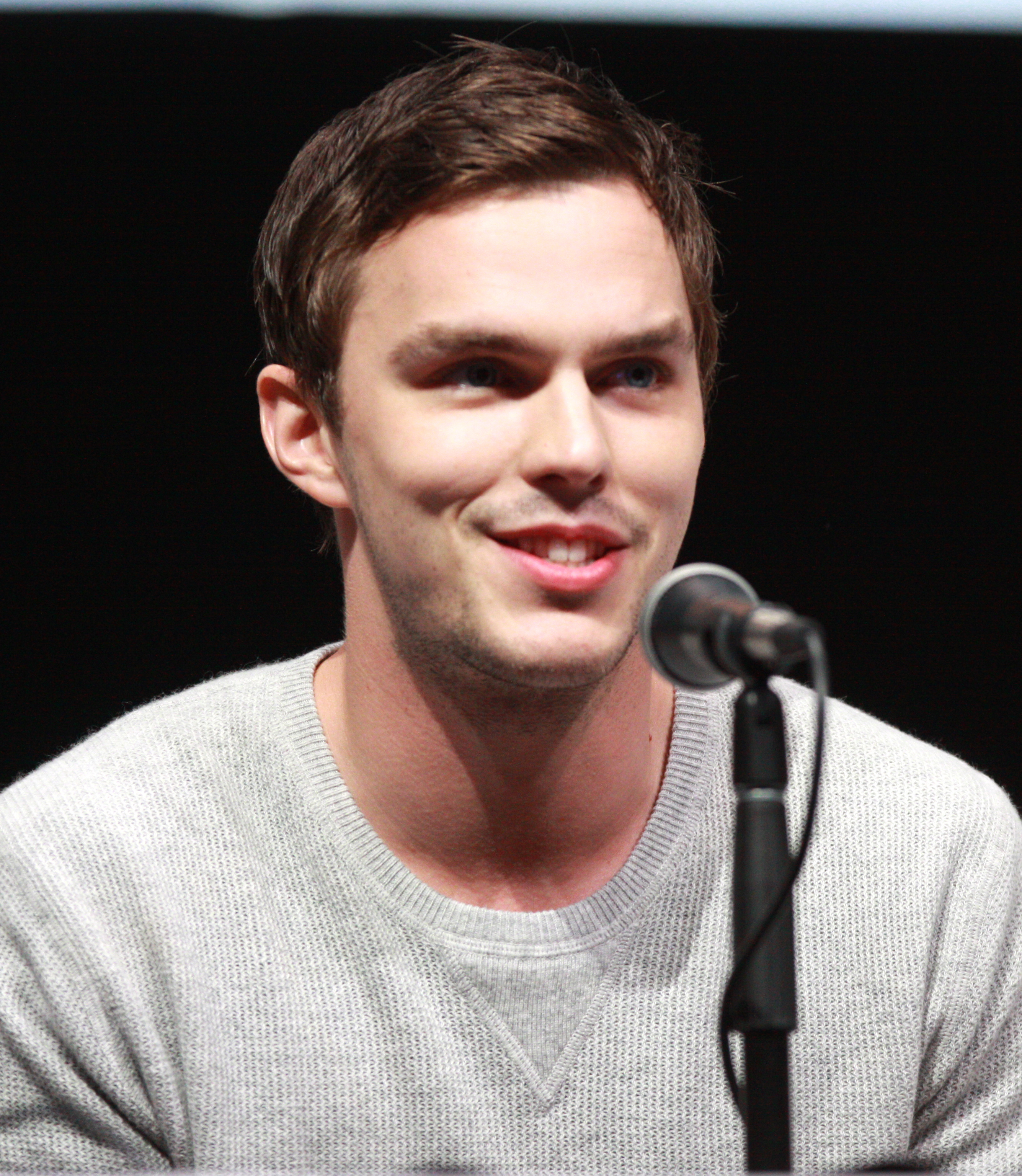 Nicholas Hoult at the 2013 San Diego Comic Con International in San Diego, California.